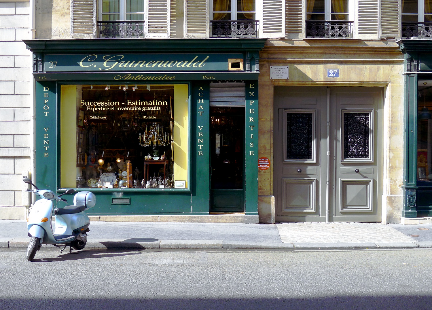 Saint-Dominique street (n°27) - Paris